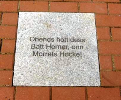 After the project of Jürgen Blum "open book along the cycle path skittles (Kegelspielradweg)" a plaque in the "Rhön Platt" (dialect) on the Klausmarbach Viaduct